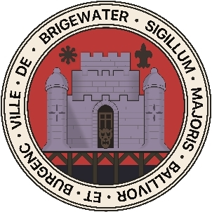 This seal is used on all legal documents relating to Bridgwater Town Council